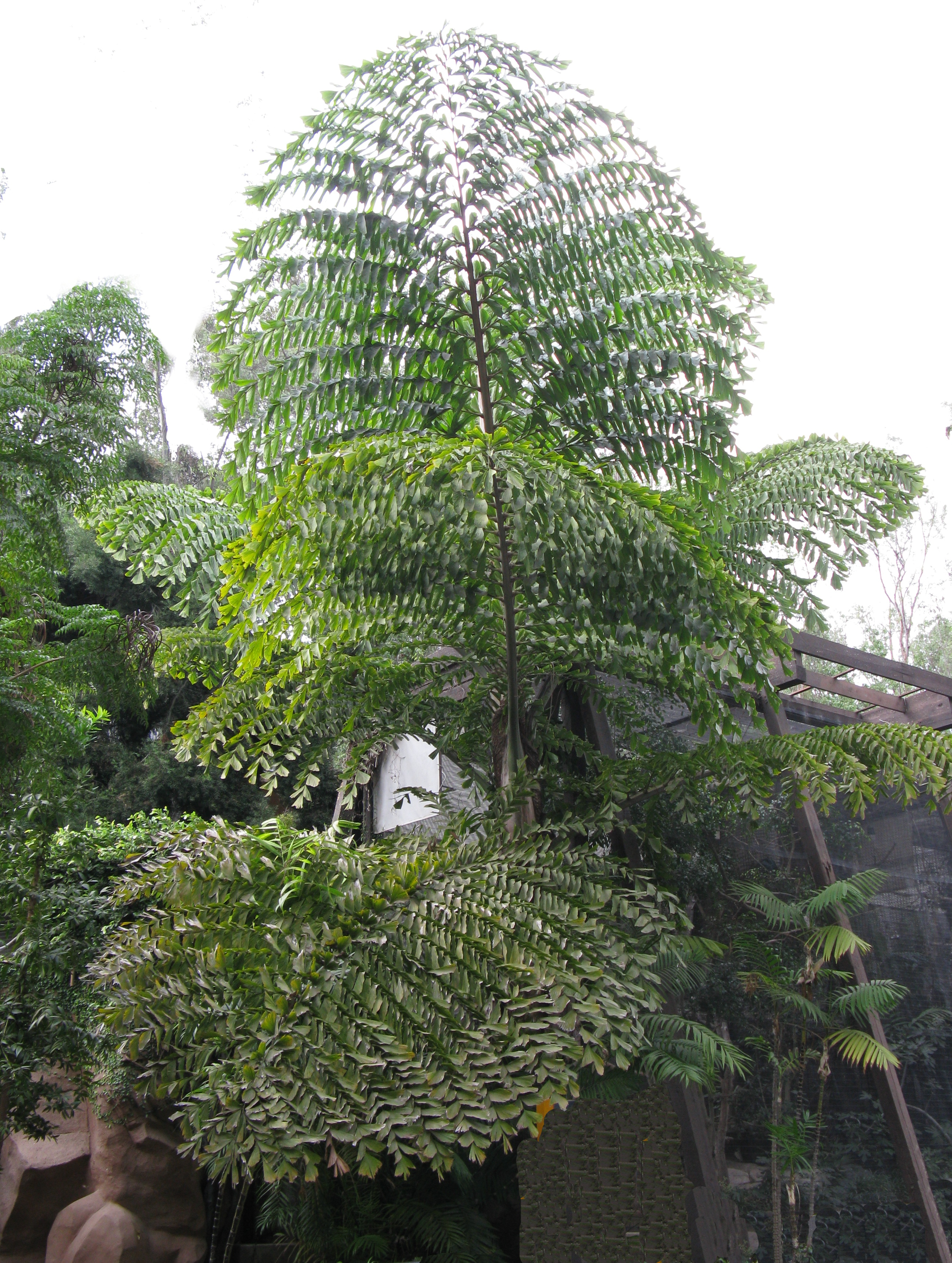 Caryota species in San Diego Zoo, showing strongly bipinnate leaves